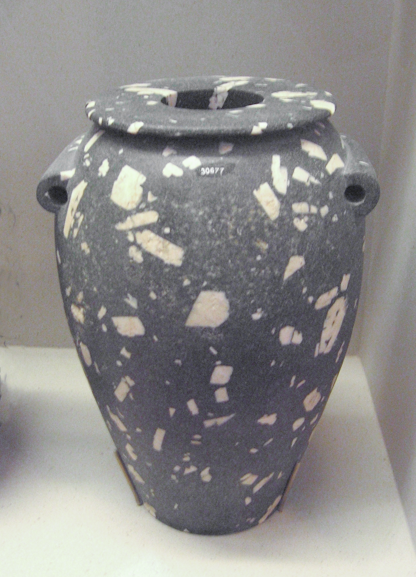 Diorite Vase, Neqada II period, cira 3500 BCE, Predynastic Ancient Egypt, from the Field Museum. Catalogue entry